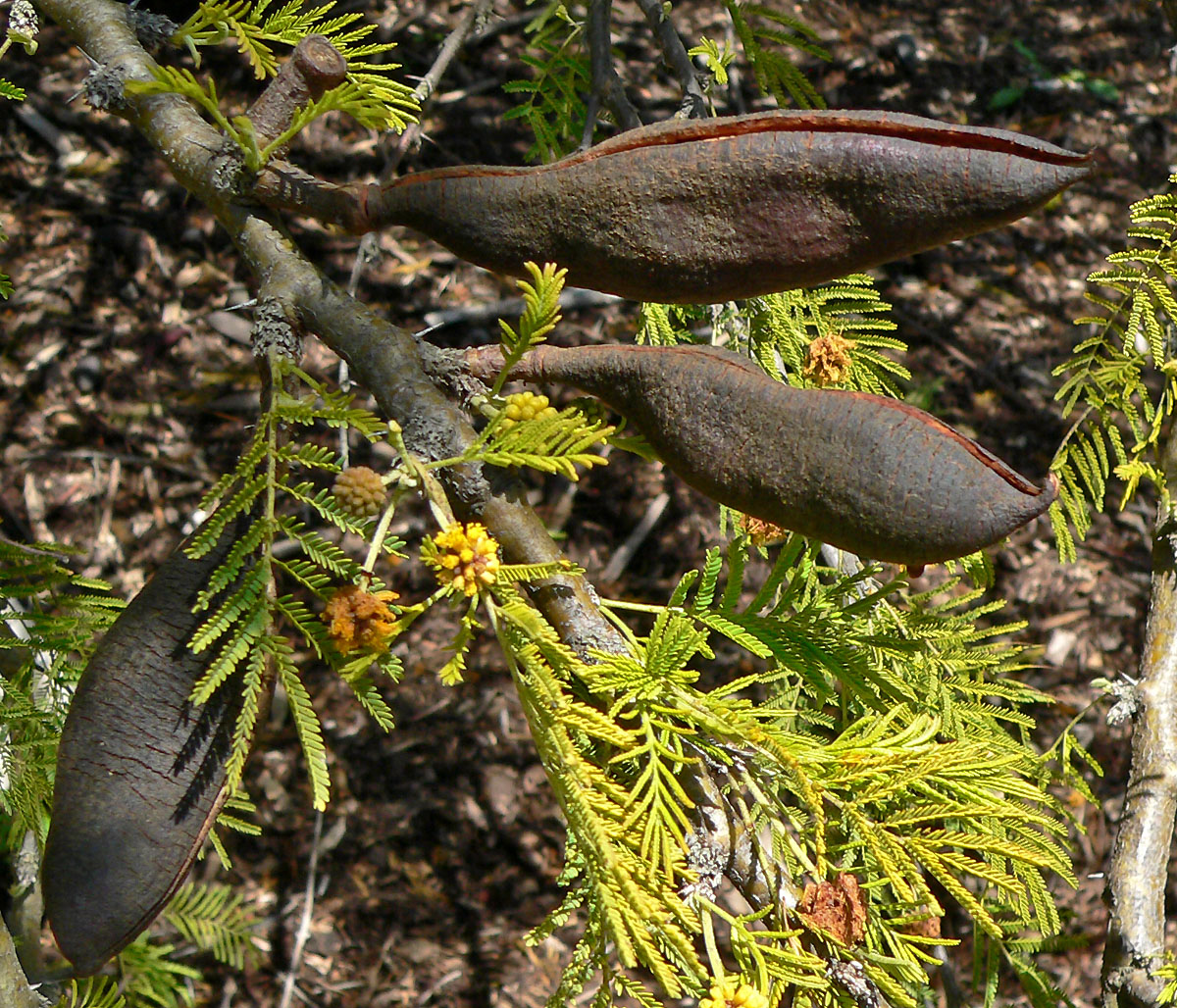 Acacia caven at the University of California Botanical Garden, Berkeley, California